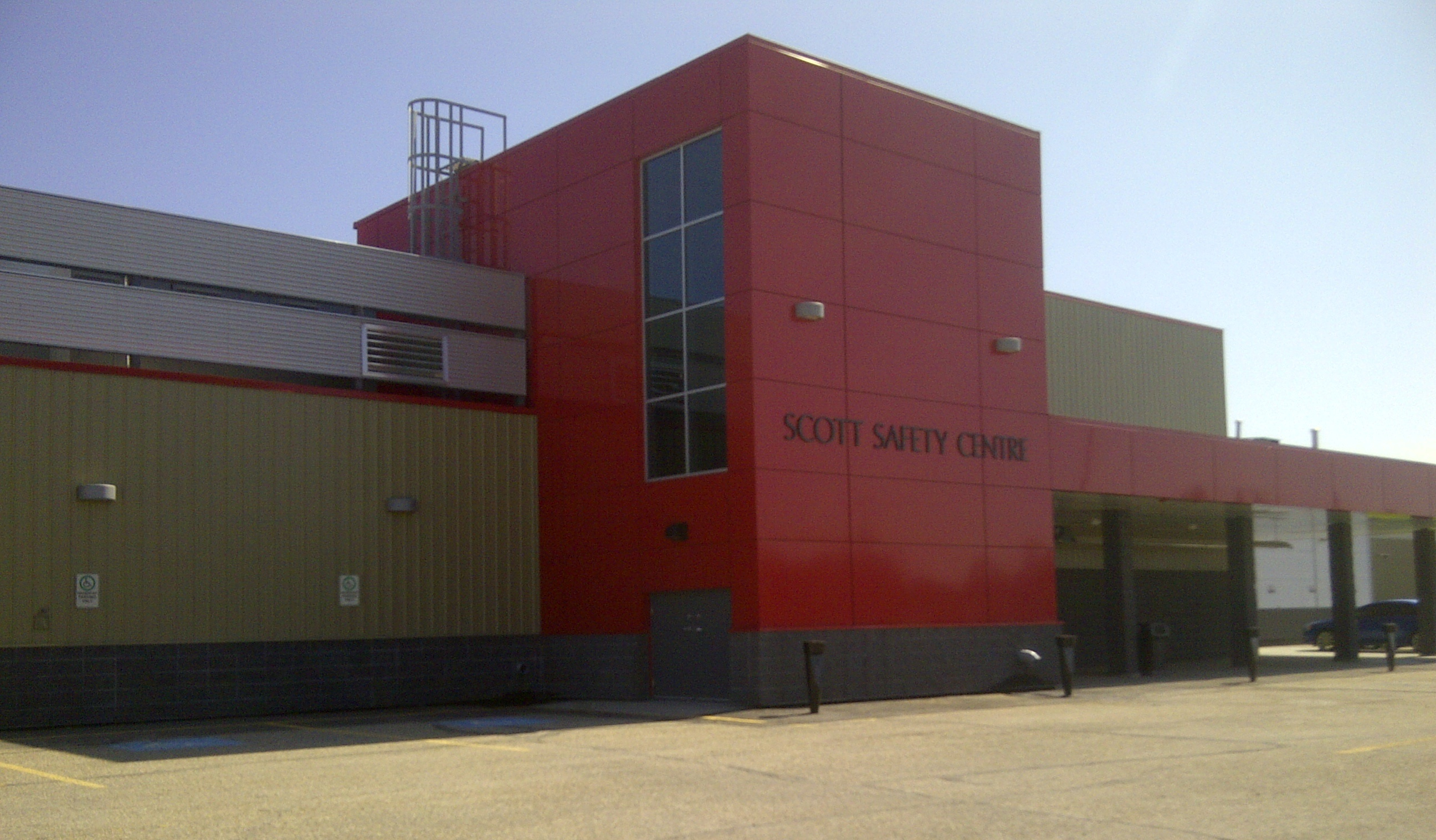 The Scott Safety Centre in Whitecourt, home of the Whitecourt Wolverines of the AJHL